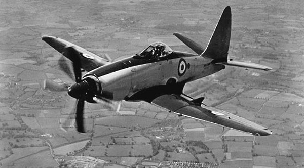 Original image taken by a British government employee prior to 1956. Photo found on